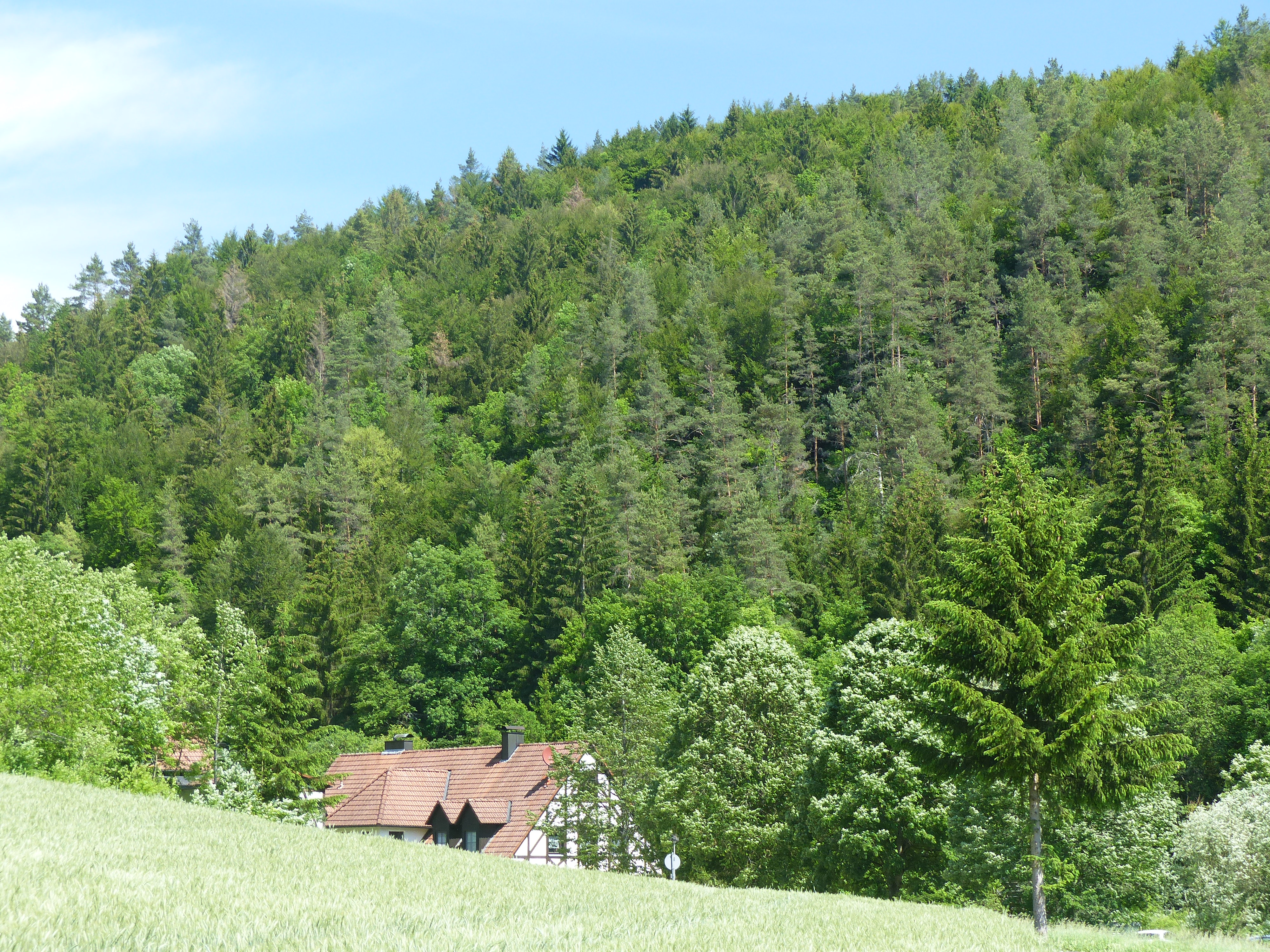 The solitude Kuchenmühle, a district of the municipality of Wiesenttal